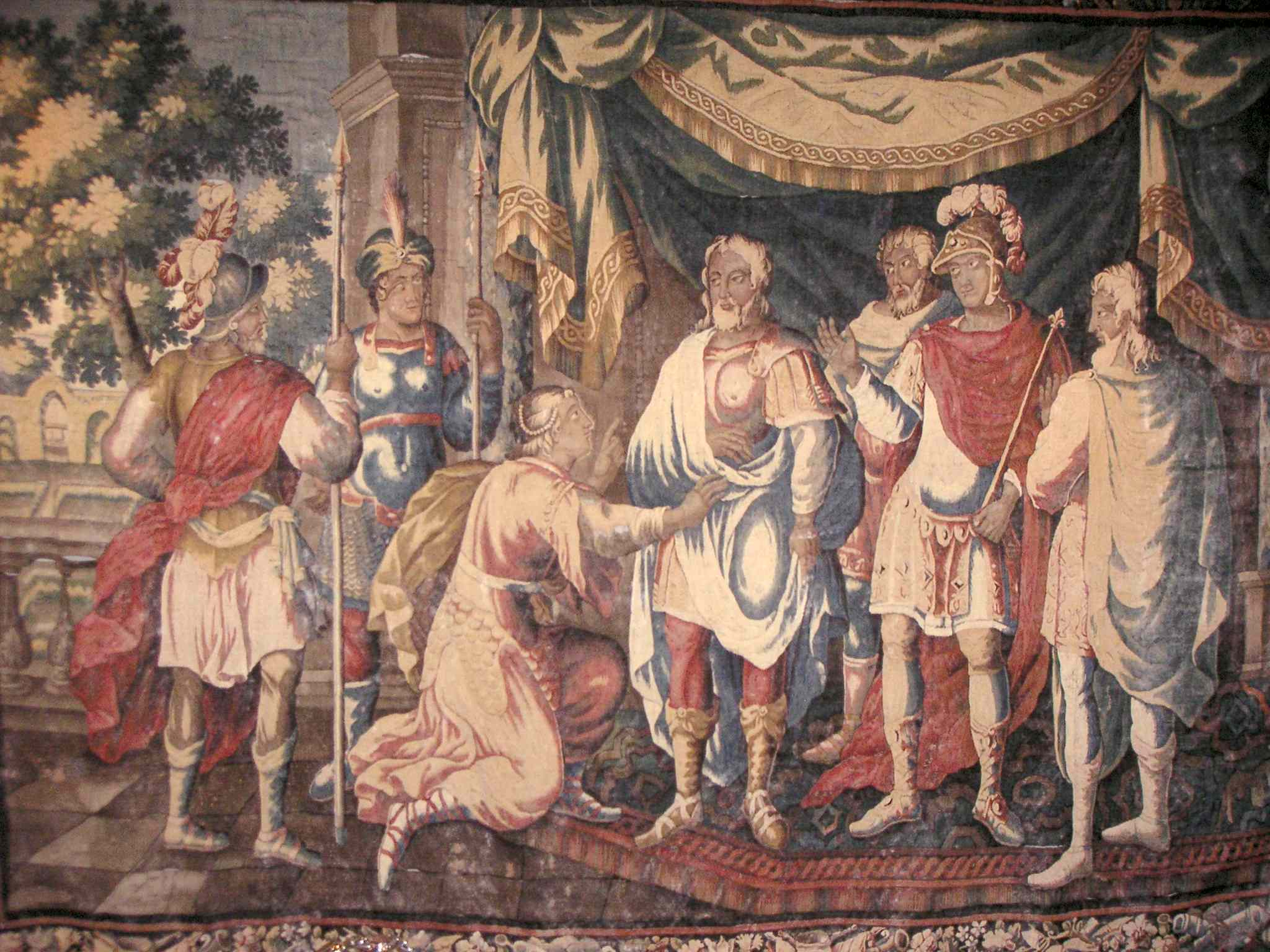 Tapestry Jeanne to Chinon, 2.75 x 2.35 m, property of the Centre Jeanne d'Arc, Orleans, (Inv. 76.51.003), exhibited at the Château de Chinon. This tapestry, attributed workshops of Aubusson region, and more specifically that of Corneille, is the third of six parts including cartons are inspired by drawings by Claude Vignon (1563-1670) and prints the etching Abraham Bosse realized from these drawings. From the castle to Sayette Vasles (Deux Sèvres) they were acquired in 1976 by the Centre Jeanne d'Arc. Jeanne is Chinon to the arrival of the maid in Chinon Castle, before King Charles VII.